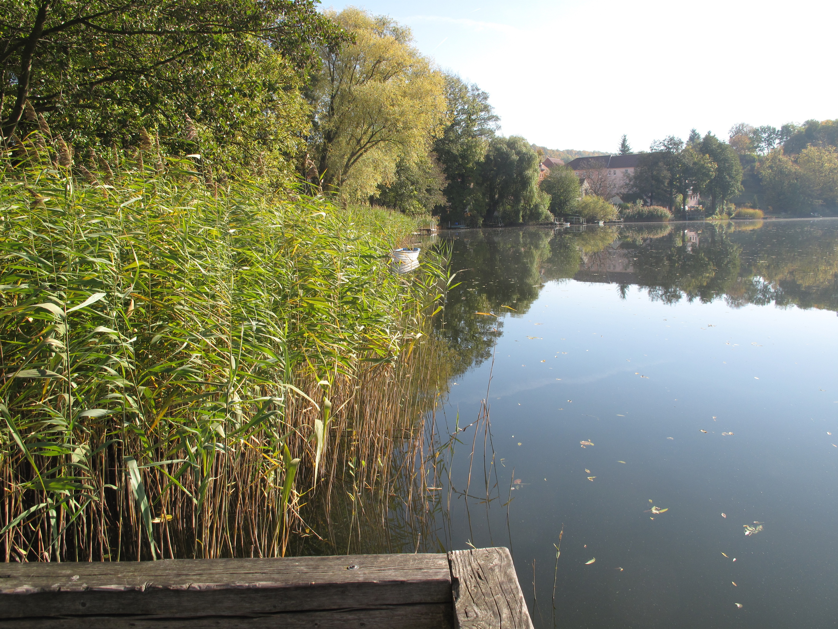 View from the eastern shore of the Buckowsee to the eastern and southern shore. The Buckowsee is a lake in Buckow, District Märkisch-Oderland, Brandenburg, Germany. The lake covers 14 hectare and has a depth of max. twelve meters. It is crossed by the river Stobber. In the west border the Kurpark Buckow (german for: Spa Park) and the Lunapark to the lake. The lake is situated in the hill country „Märkische Schweiz“ and in the Märkische Schweiz Nature Park.